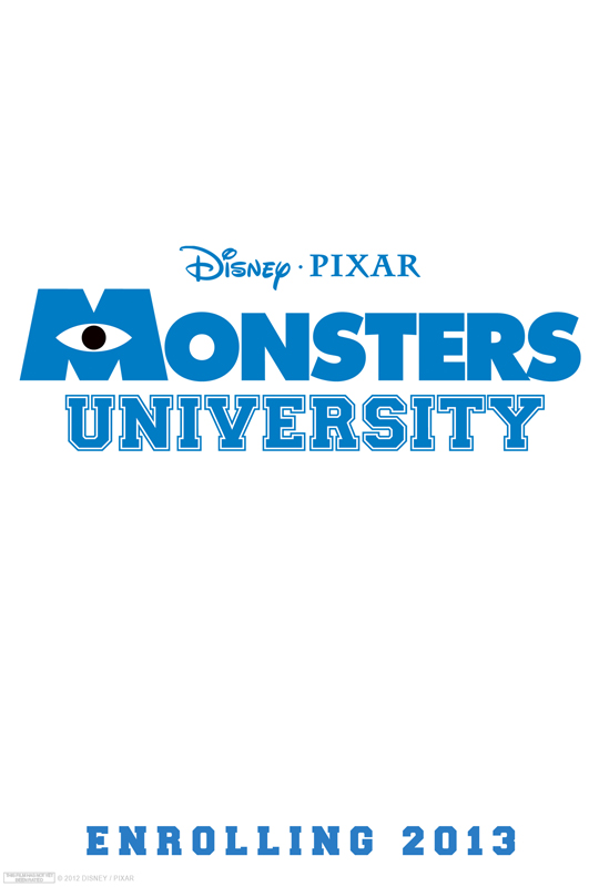 Poster for the Pixar 2013 film Monsters University